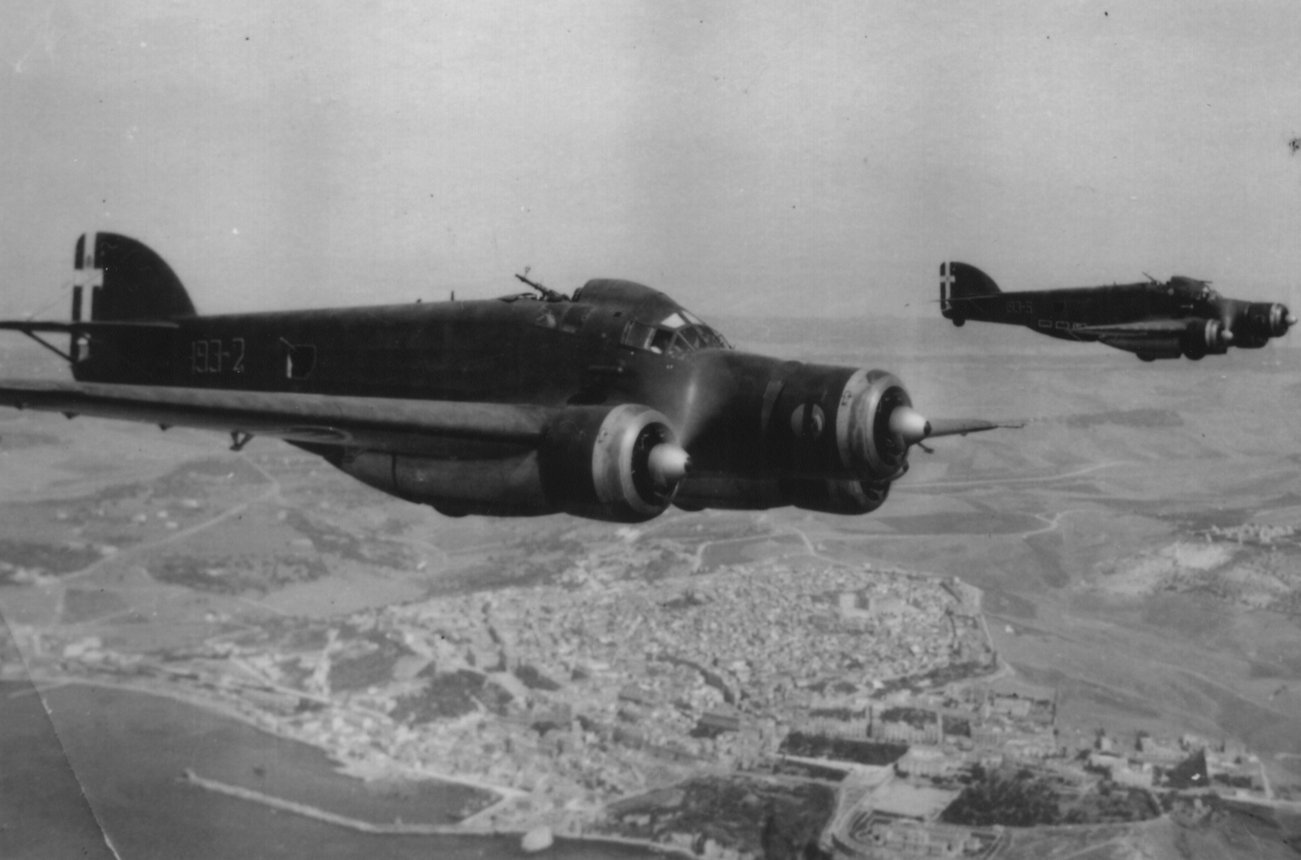 two Savoia-Marchetti S.M.79 of the 193ª Squadriglia Bombardamento Terrestre (193th Land Bombing Squadrilla), 87º Gruppo (87th Group), 30º Stormo (87th Wing). From the private archive of Riggio family. Original version. digitally restored version.